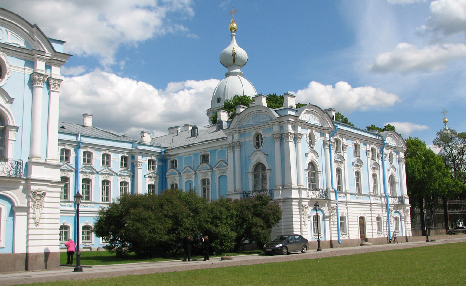 Side view of Smolny monastery in Saint Petersburg, Russia.